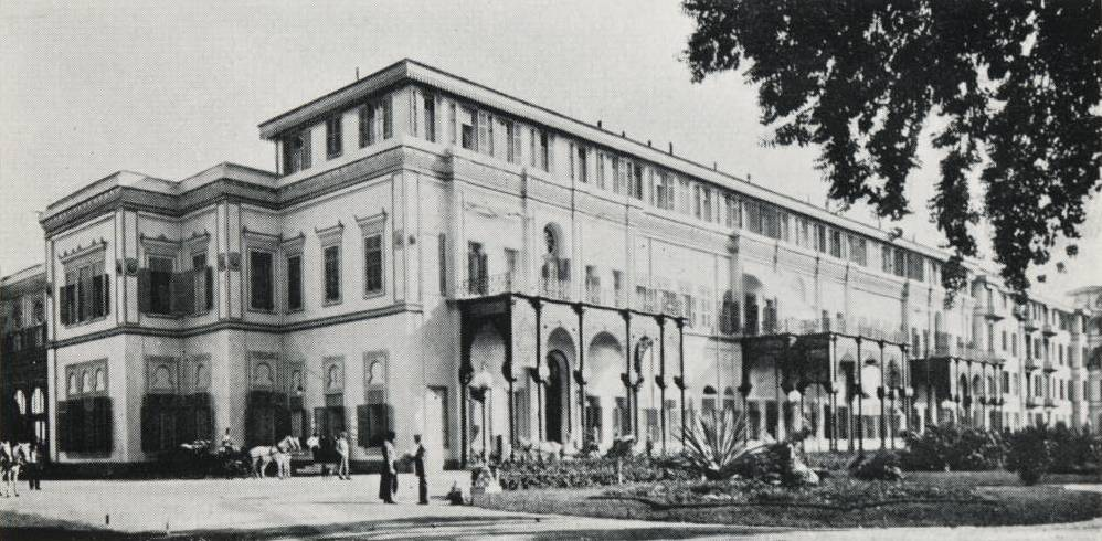 The former royal Gezirah Palace of the Muhammad Ali Dynasty — built c. 1869 on Gezira Island, in Cairo. A picture of the large Ghezireh Palace Hotel (converted from royal palace c.1890s) in 1906, taken from street level. Designed by architect: Carl von Diebitsch for Isma'il Pasha.